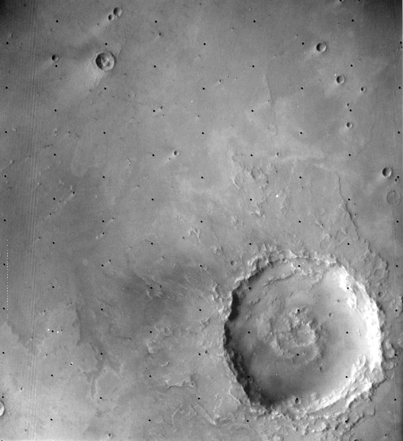 Wahoo crater (lower right) on Mars. The crater in upper left is Nakusp. Viking Orbiter 1 image from camera A (524A55). Red filter was used for this image. Resolution is about 141 m/pixel. North is up. Emission Angle: 14.9 Incidence Angle: 64.3 Latitude: 24.5 Longitude: 325.3 Phase Angle: 77.1